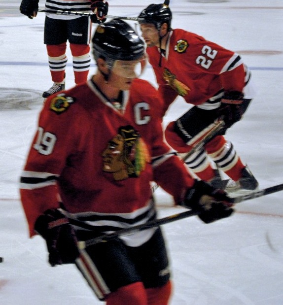 Chicago Blackhawks, Stanley Cup banner ceremony and 2010-2011 season opener vs Detroit Red Wings at the United Center.